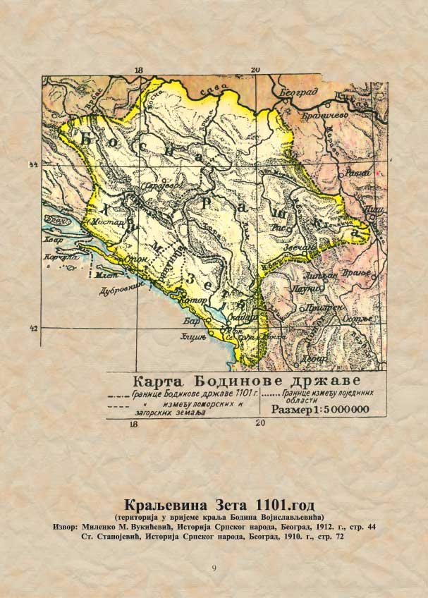 Map of Konstantin Bodin's Duklja. Downloaded from Permission granted transitionally through the Rastko Organization